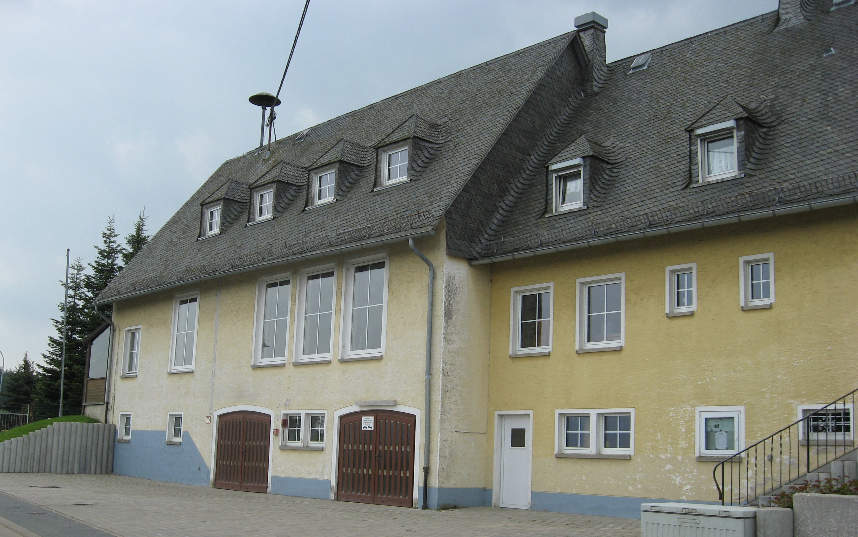 Old school building of the village Hecken in the Hunsrück landscape, Germany.